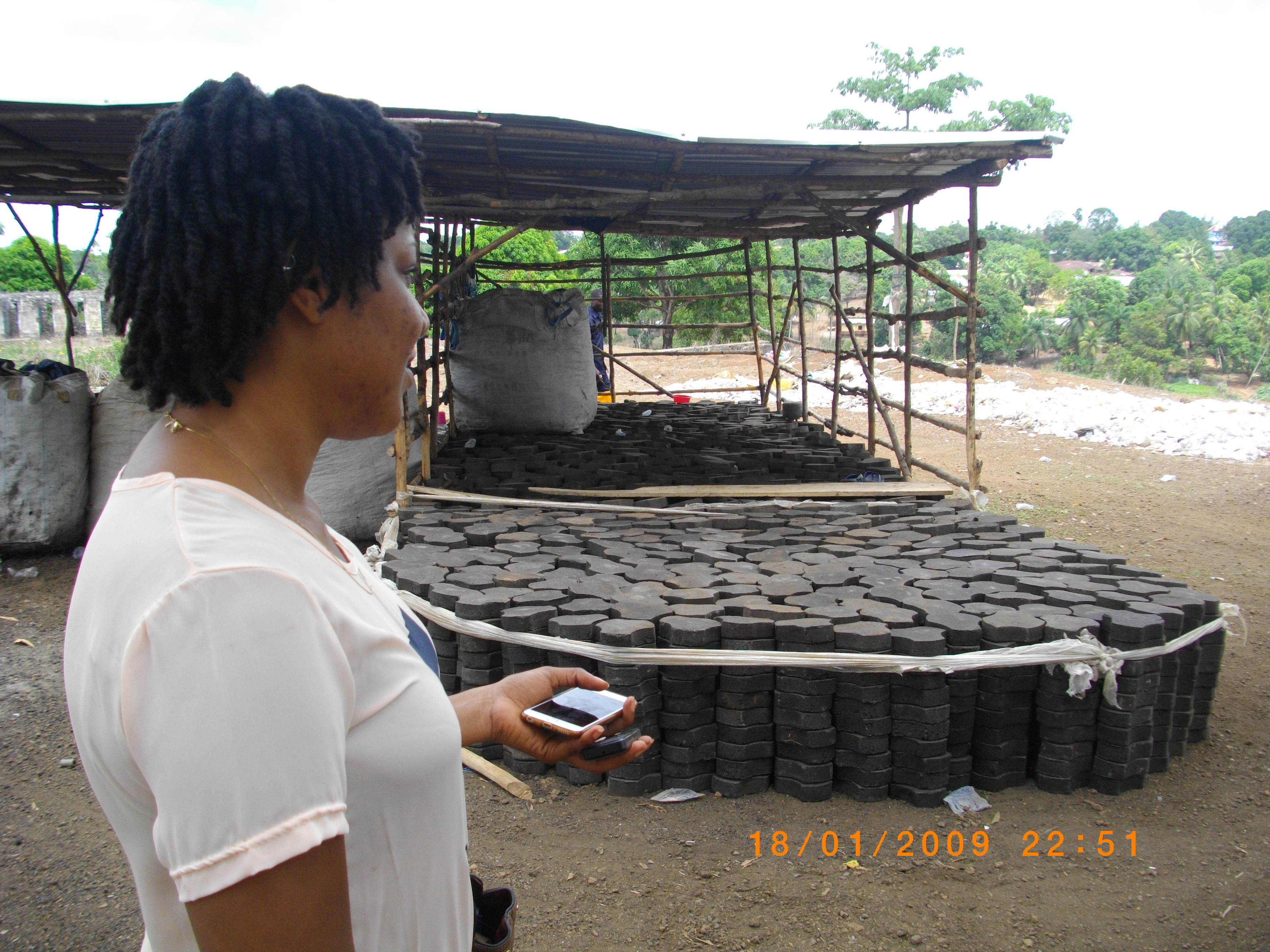 Waste plastics to wealth This is an image of "African people at work" from Sierra Leone